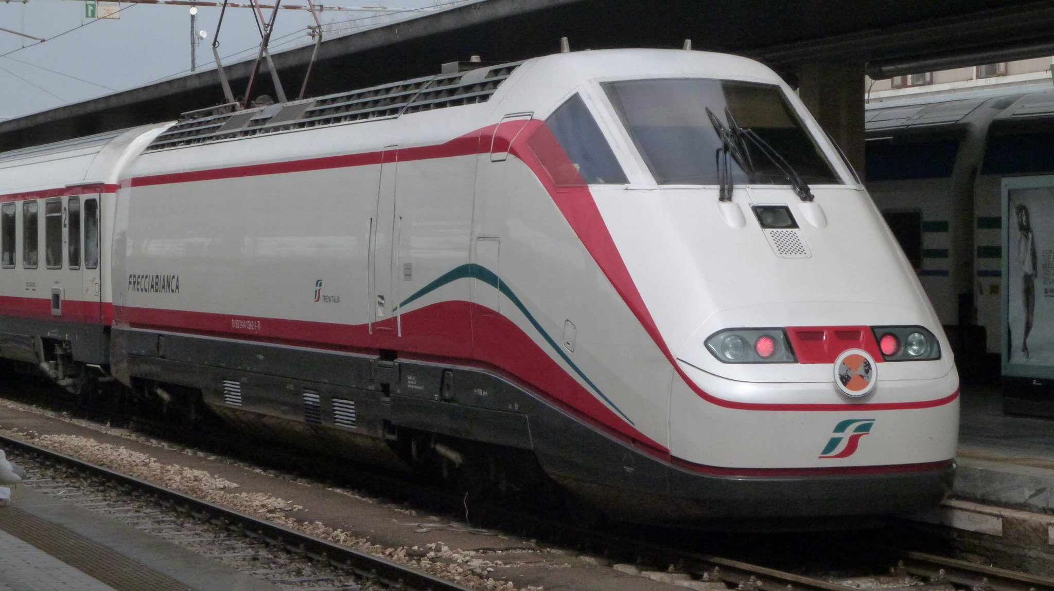 Trenitalia Frecciabianca Class 414 No 414-139 waiting at Santa Lucia Station, Venice. Rebuilds of the original E500 high speed trains, the class 414 Alstom motors are the third series after Rossa and Argento serving intermediate cities not linked to the HST network.